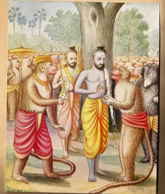 Sugreeva now spared his monkey force led by great warriors like Maruti, Angada and Jambuvanta to help Rama in his search of Sita. Rama described his wife's features to Maruti to enable him to find her out. He also gave his signet ring which Sita could identify.